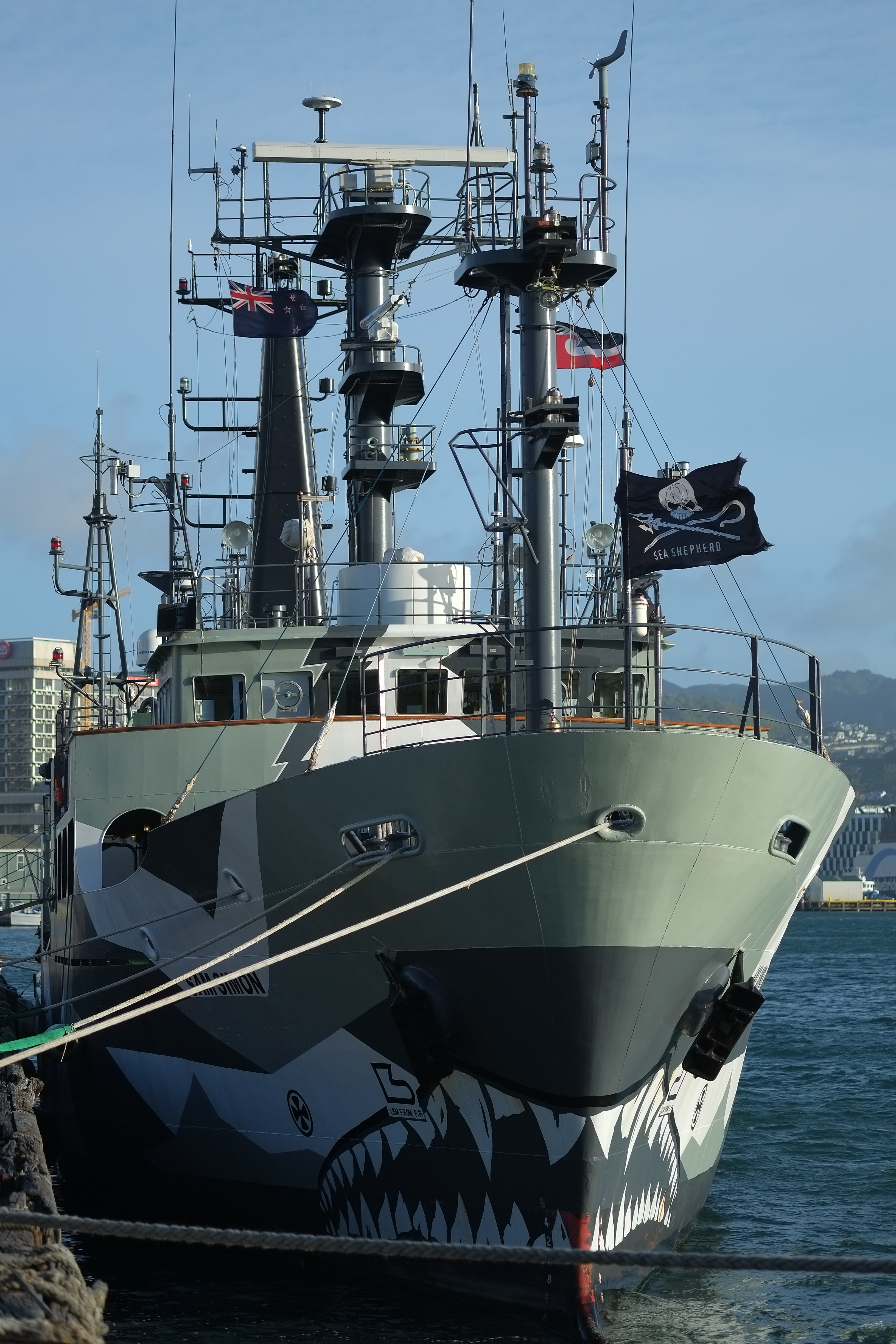 Sea Shepherd's MY Sam Simon berthed in Wellington in November 2014 shortly before embarking on "Operation Icefish" to patrol the Southern Ocean against illegal toothfish operators.[1]